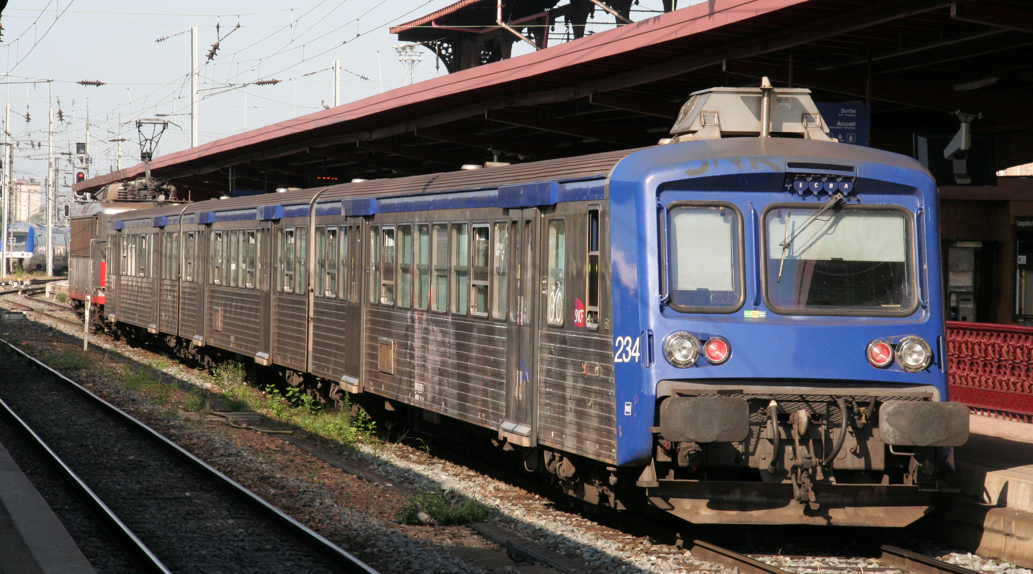 Rame réversible régionale in Strasbourg